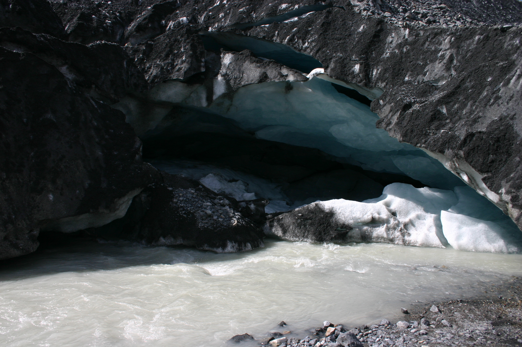 Ice cave forming an arch over the gushing meltwater of Athabasca Glacier